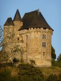 Donjon de Ballon, department de Sarthe. The "Gateway to Maine", ancient Province of France.